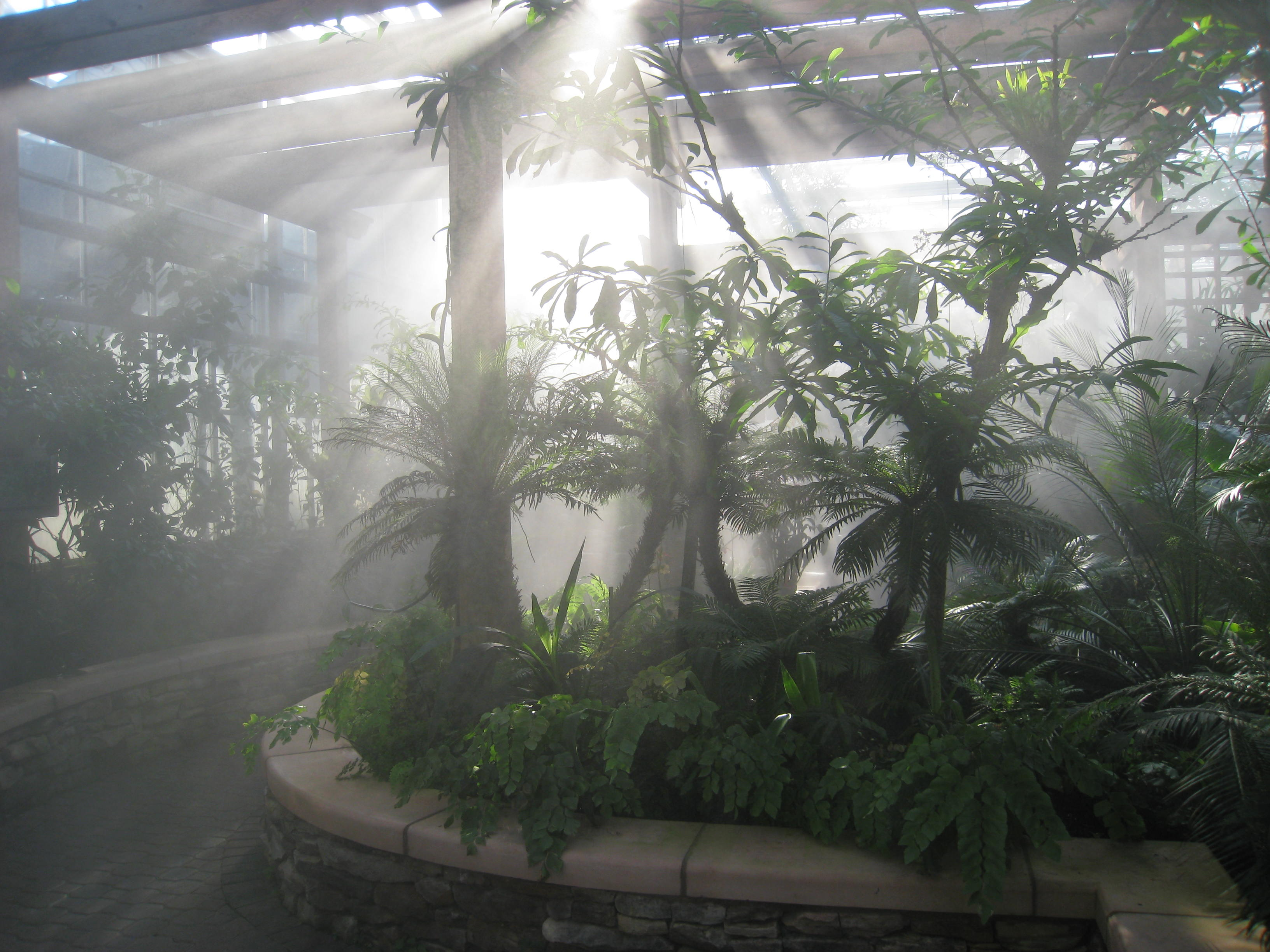 Orchid house, Atlanta Botanical Garden, Atlanta, Georgia, USA.